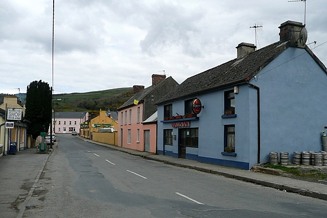 Main Street, Broadford A typical small village in Co Clare.